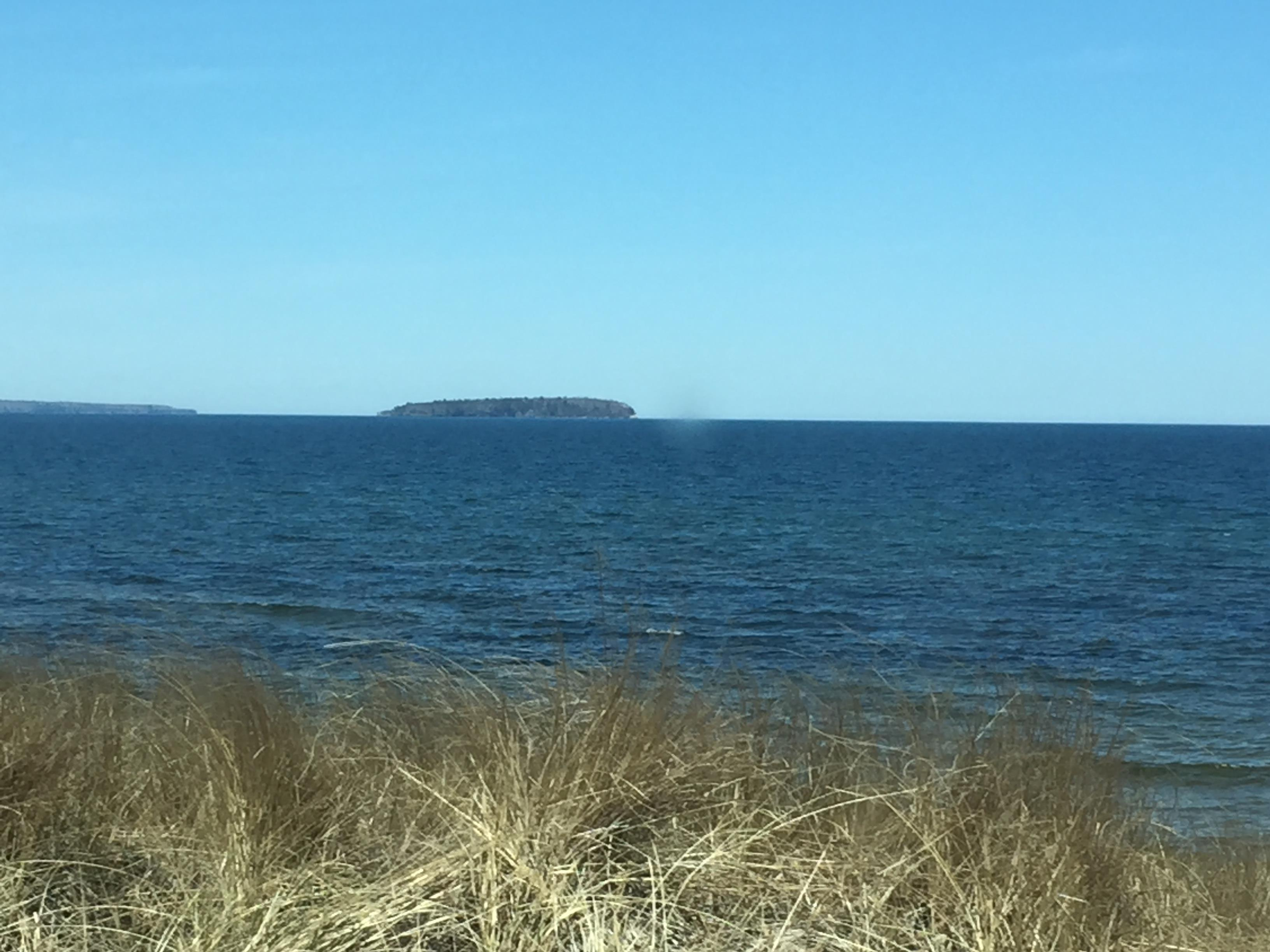 Lake Michigan Upper Peninsula. Lake Michigan is one the Great Lakes that grandmother Mandain walked around to raise water quality awareness. Photo by Daniel DeVault.